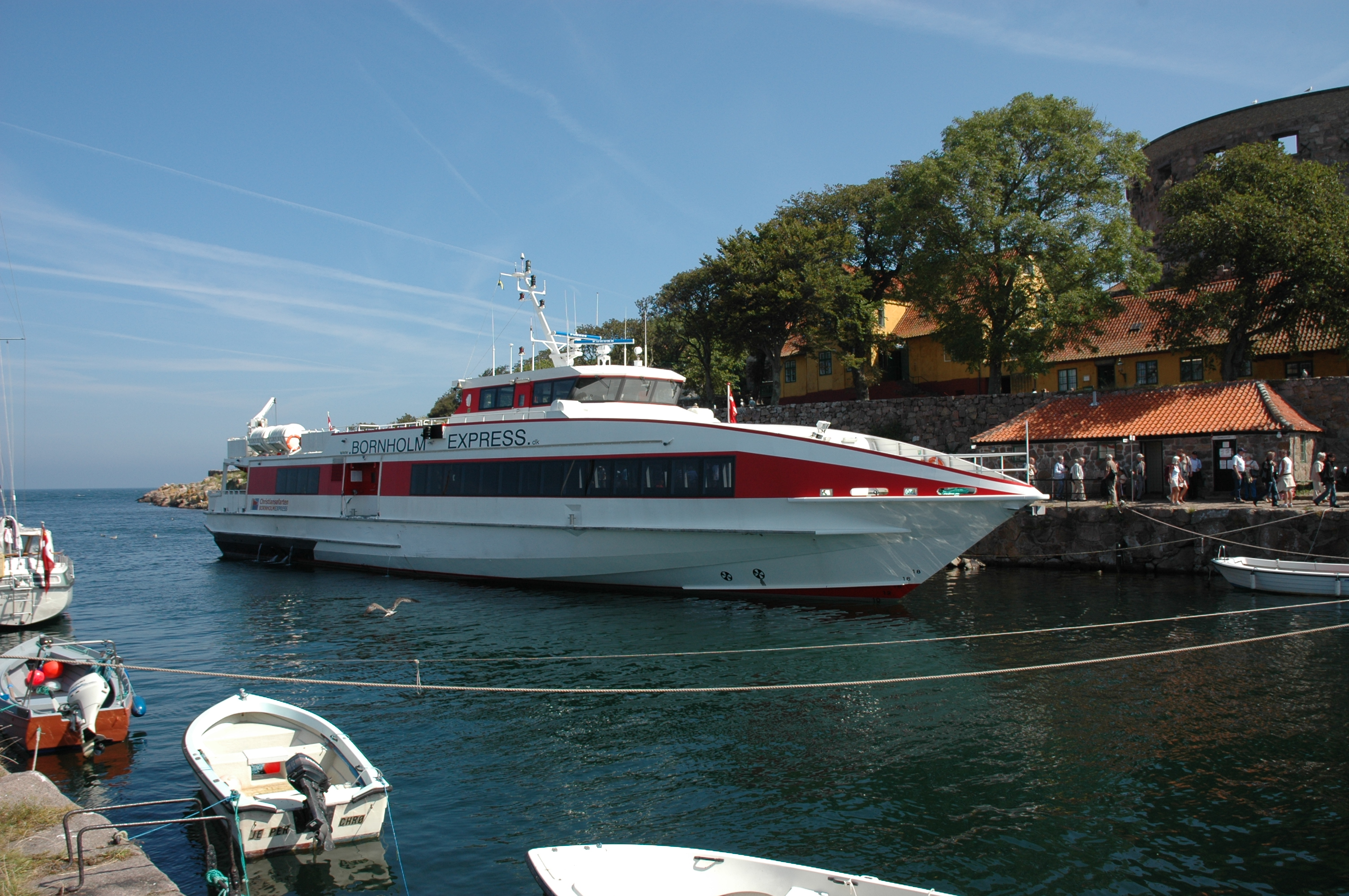 Bornholm Express in Christiansö, Bornholm. Now: Granville IMO Number: 9356476 MMSI Number: 220451000 Callsign: OYGF Length: 40 m Beam: 8 m AIS